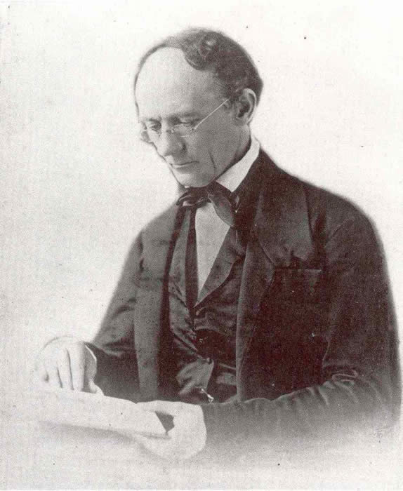 Photo of William Holmes McGuffey.